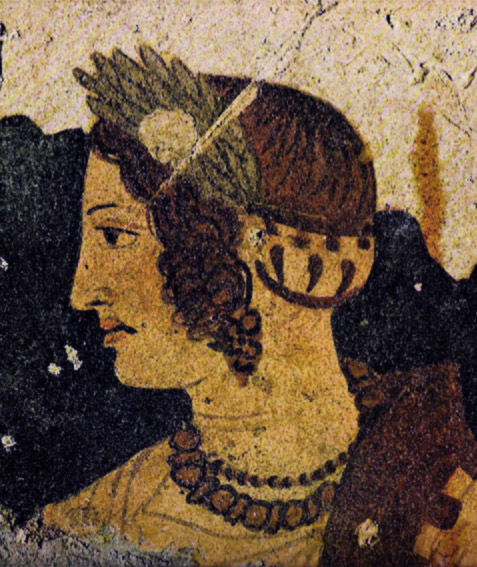 Velia Velcha, on the wall of the Tomb of Orcus, Necropoli dei Monterozzi in Tarquinia.